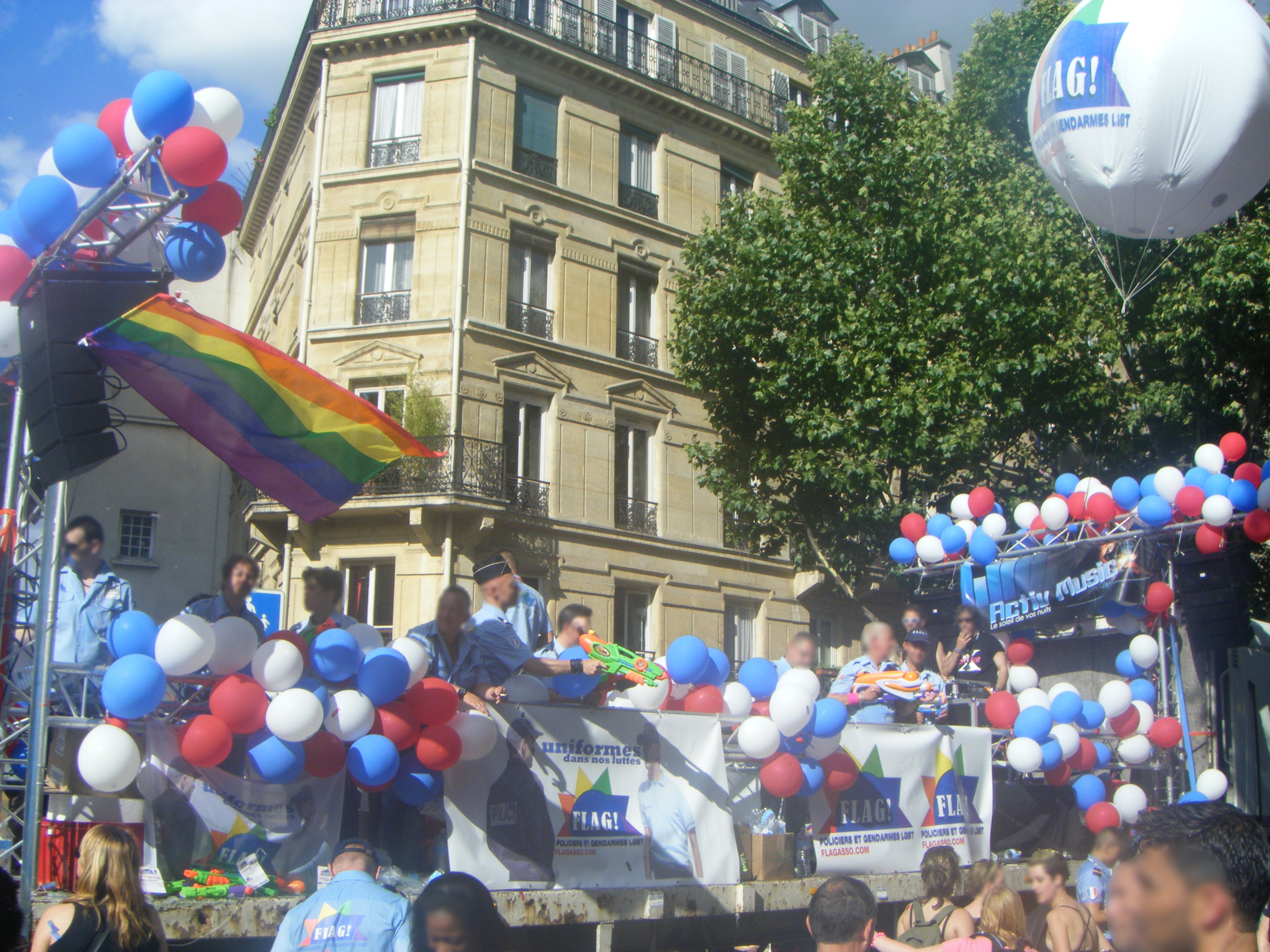 Flag !'s float at the Gay Pride 2011, Paris. Flag ! is a LGBT french cops association.